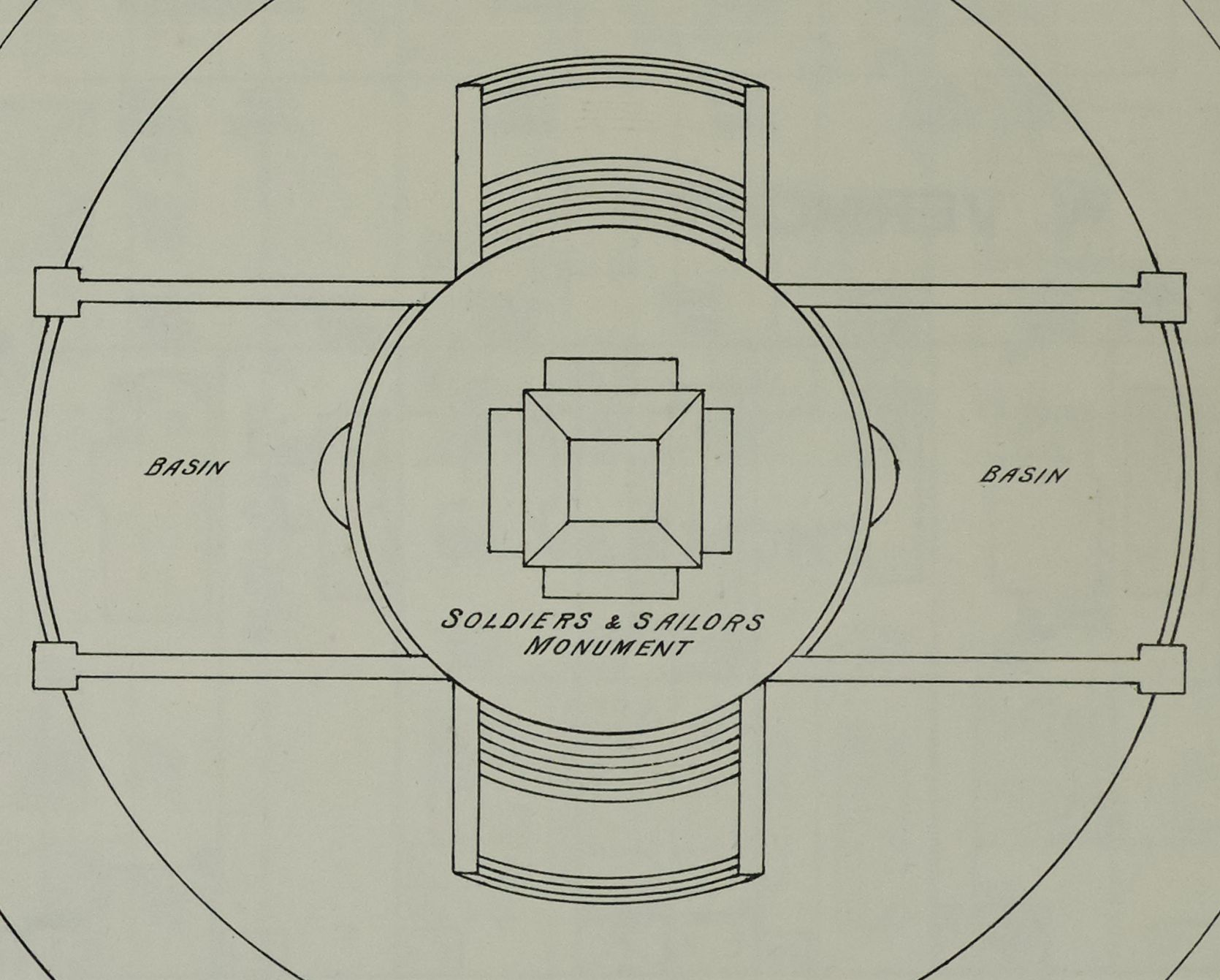 1898 Vol. 1. 115 Sheet(s). Key map to edition. Bound.